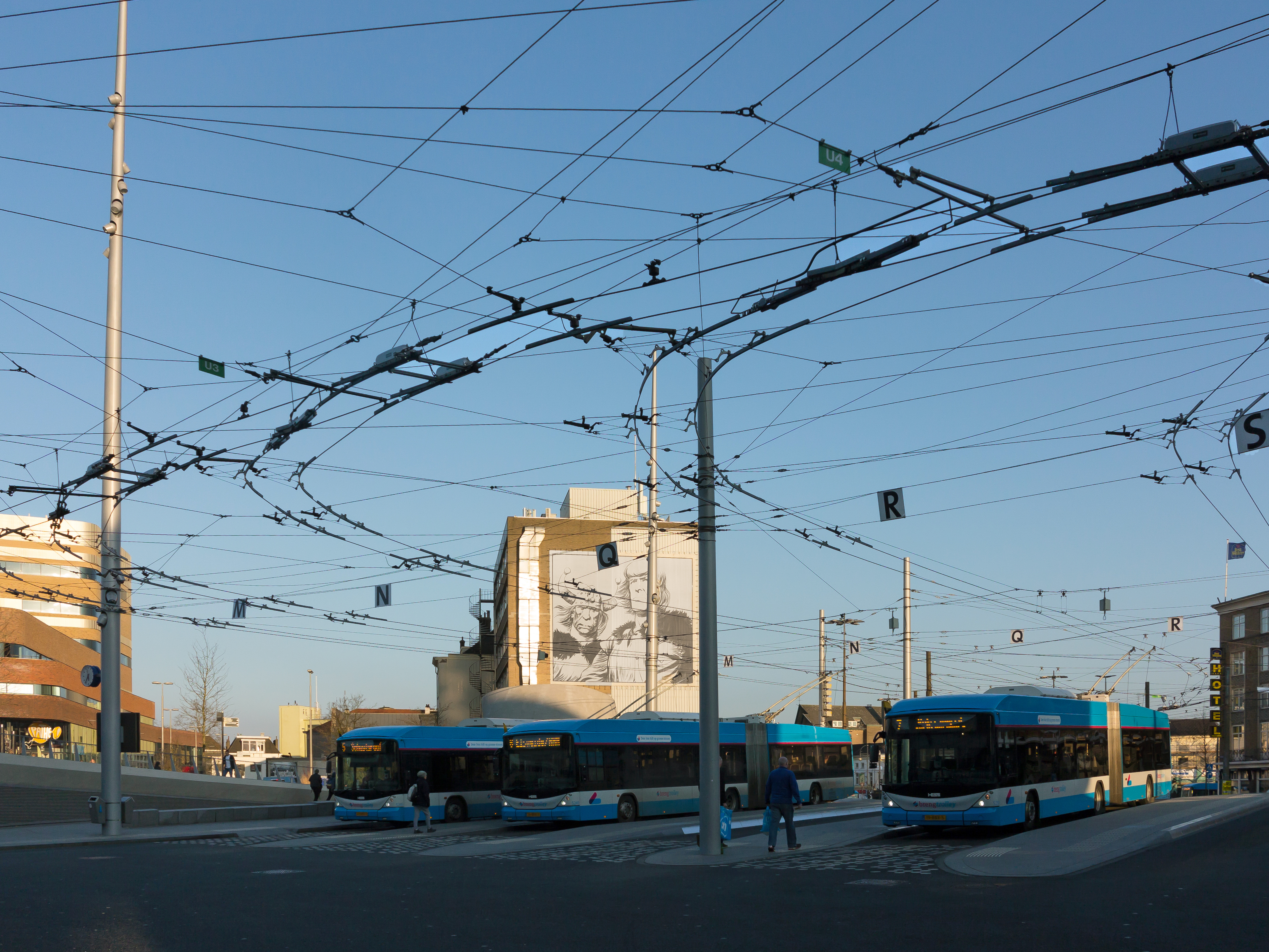 Arnhem, centaal trolleybus station with Eric de Noorman